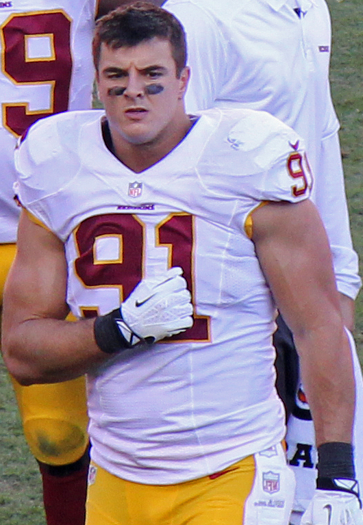 Ryan Kerrigan, a player on the National Football League.